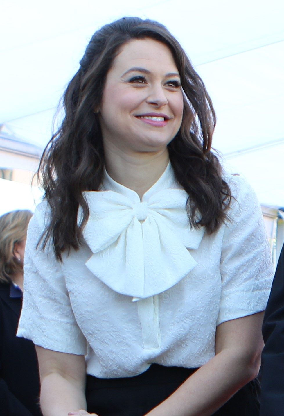 Katie Lowes cropped from image of Mayor Garcetti, Katie Lowes, and Lea DeLaria rolling out the red carpet for the SAG Awards.